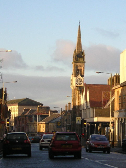 Main Street, Wishaw